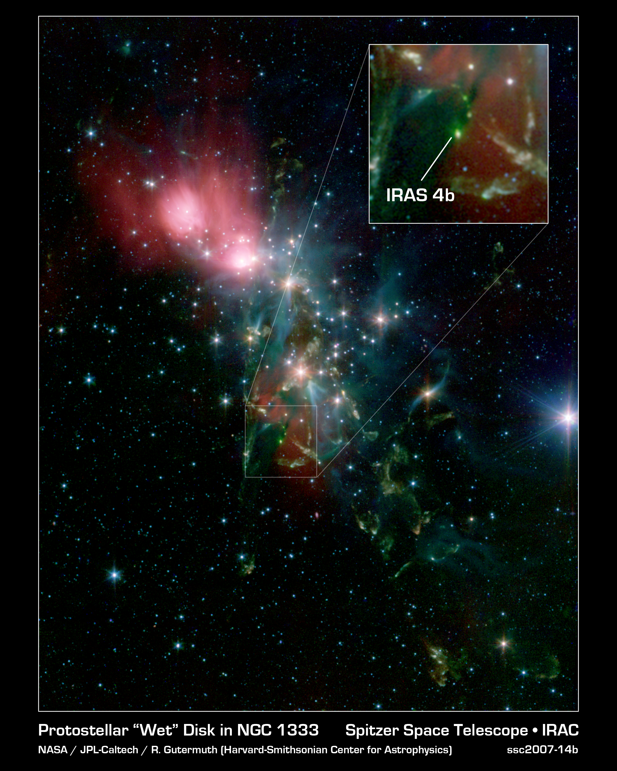 This image from NASA's Spitzer Space Telescope shows a stellar nursery called NGC 1333. Spitzer discovered that a pre-planetary disk of dust surrounding an embryonic star within this region, called NGC 1333-IRAS 4B, is drenched with water vapor. NGC 1333 is located about 1,000 light-years away in the Perseus constellation. It is a cloud of gas and dust that is busy manufacturing new stars. Spitzer surveyed four of the very youngest stars in this region and 26 others elsewhere, but found only one, NGC 1333-IRAS 4B (see inset), with water vapor. This might be because NGC 1333-IRAS 4B is in just the right orientation for Spitzer to view deep inside the developing star system and detect the water vapor.